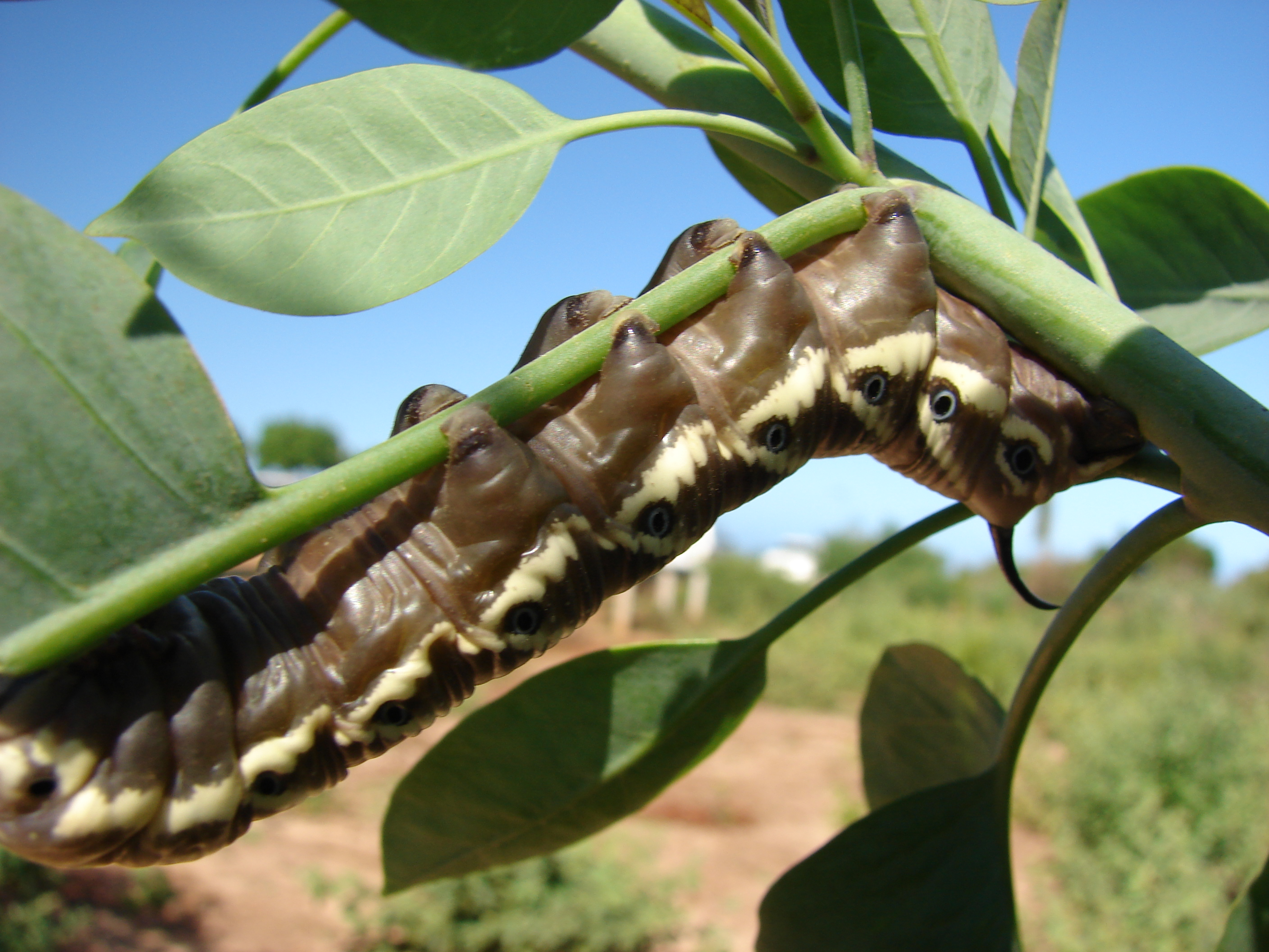 Nicotiana glauca (habit and grey morph Manduca blackburni larva). Location: Maui, Kanaha Beach